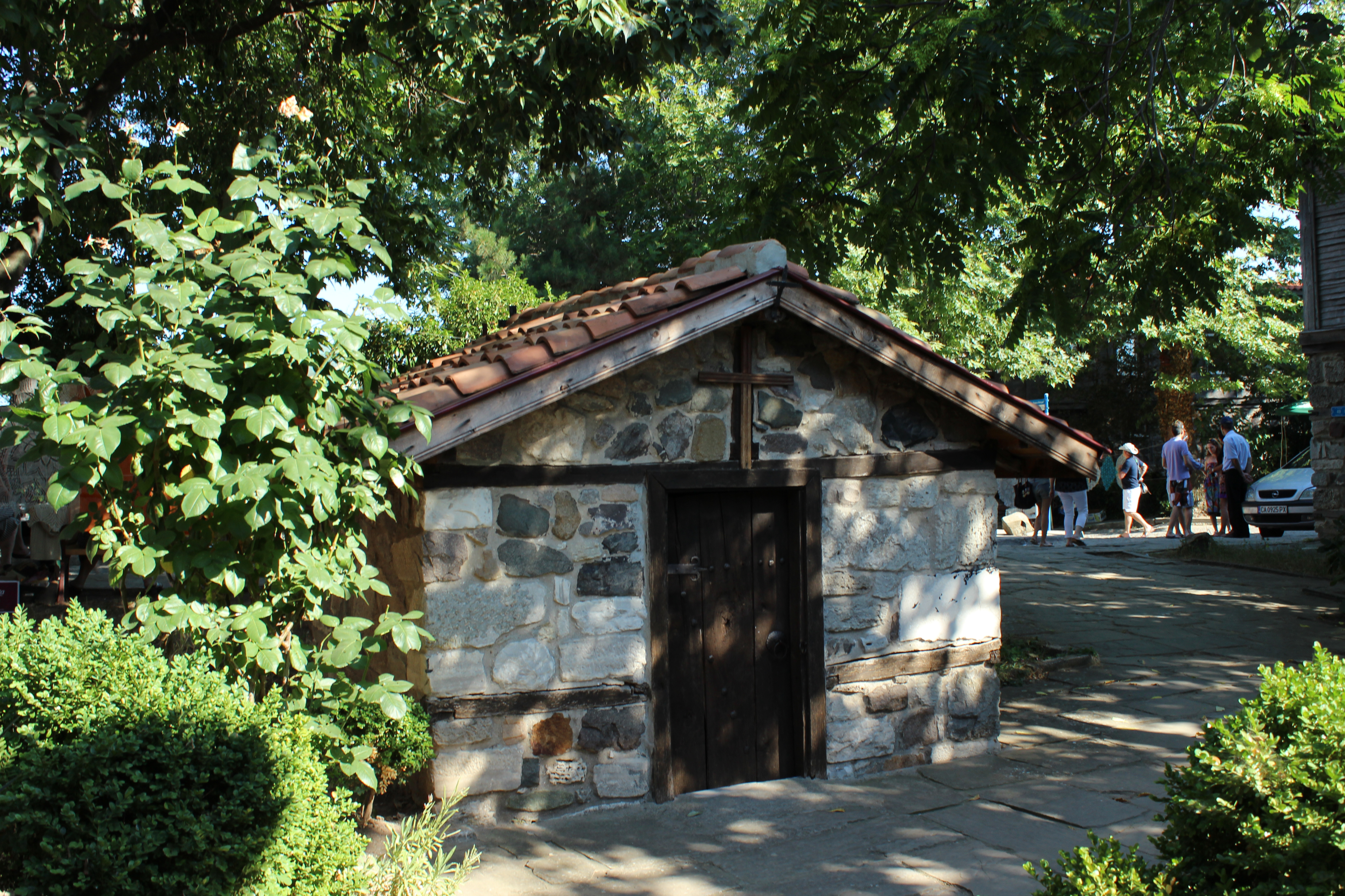 Sozopol: Chapel in the Apollonia Street